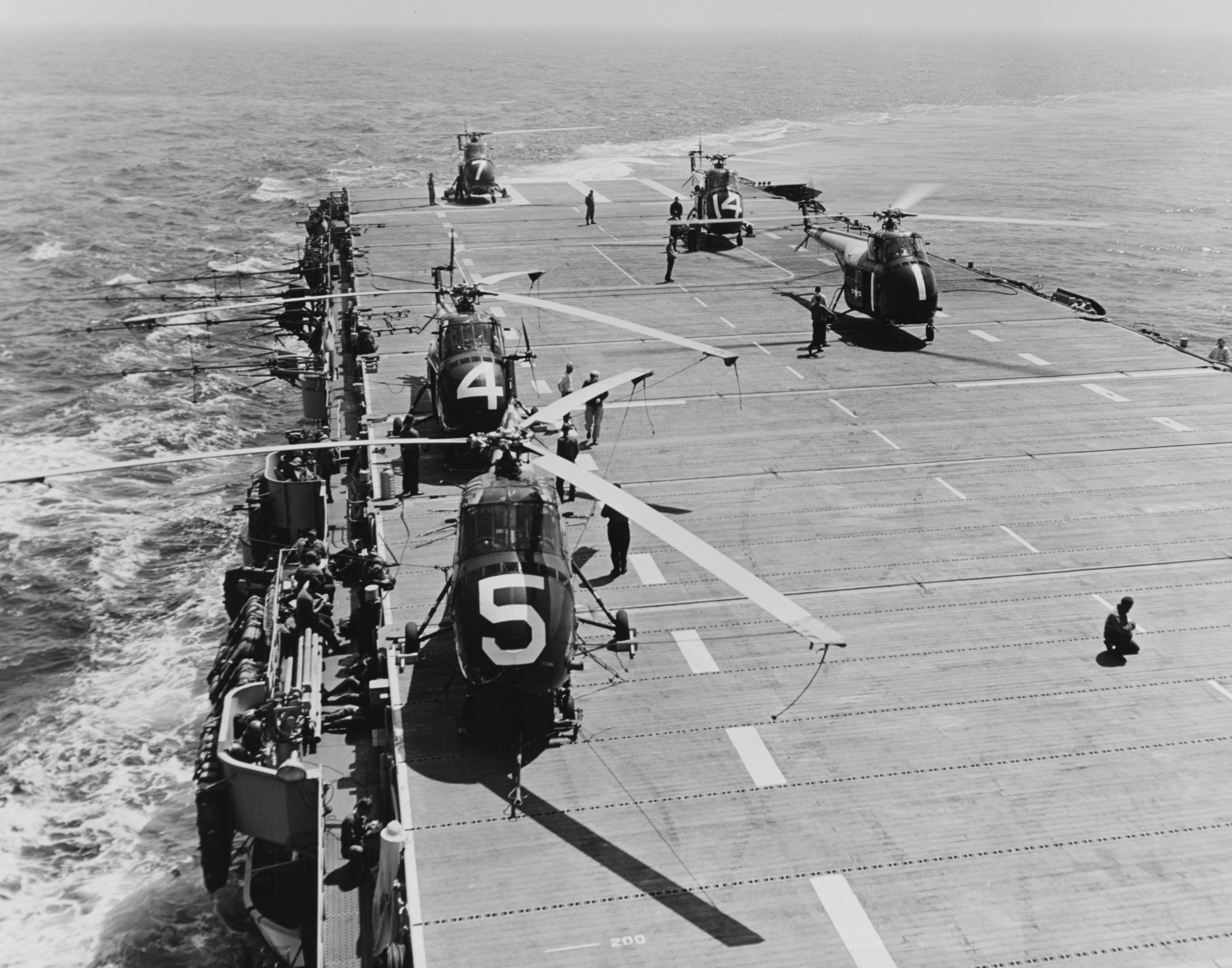 U.S. Navy Sikorsky HO4S-3 helicopters from Helicopter Anti-Submarine Squadron 4 (HS-4) aboard the escort carrier USS Badoeng Strait (CVE-116) during exercises off the U.S. West Coast on 27 July 1954. This marked the first time that a helicopter anti-submarine warfare squadron took over full use of a carrier for ASW exercises.